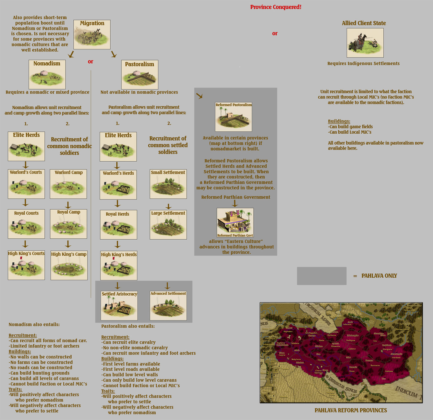 A diagram showing the possible development of nomadic factions in the Europa Barbarorum computer game modification.